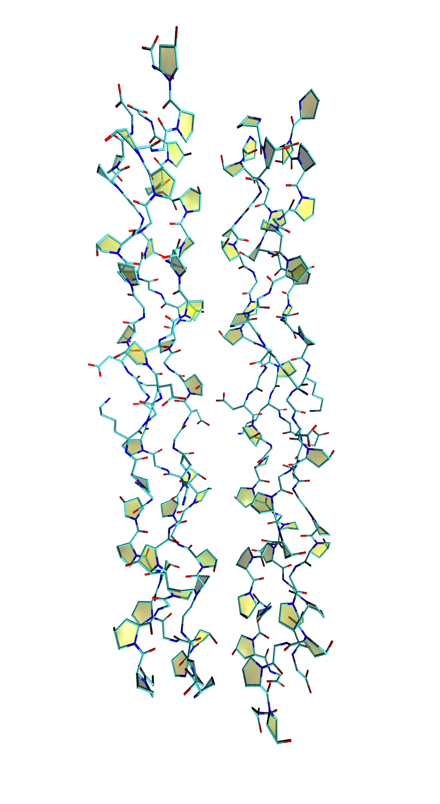 Side by side pairs of right handed tropocollagen molecules